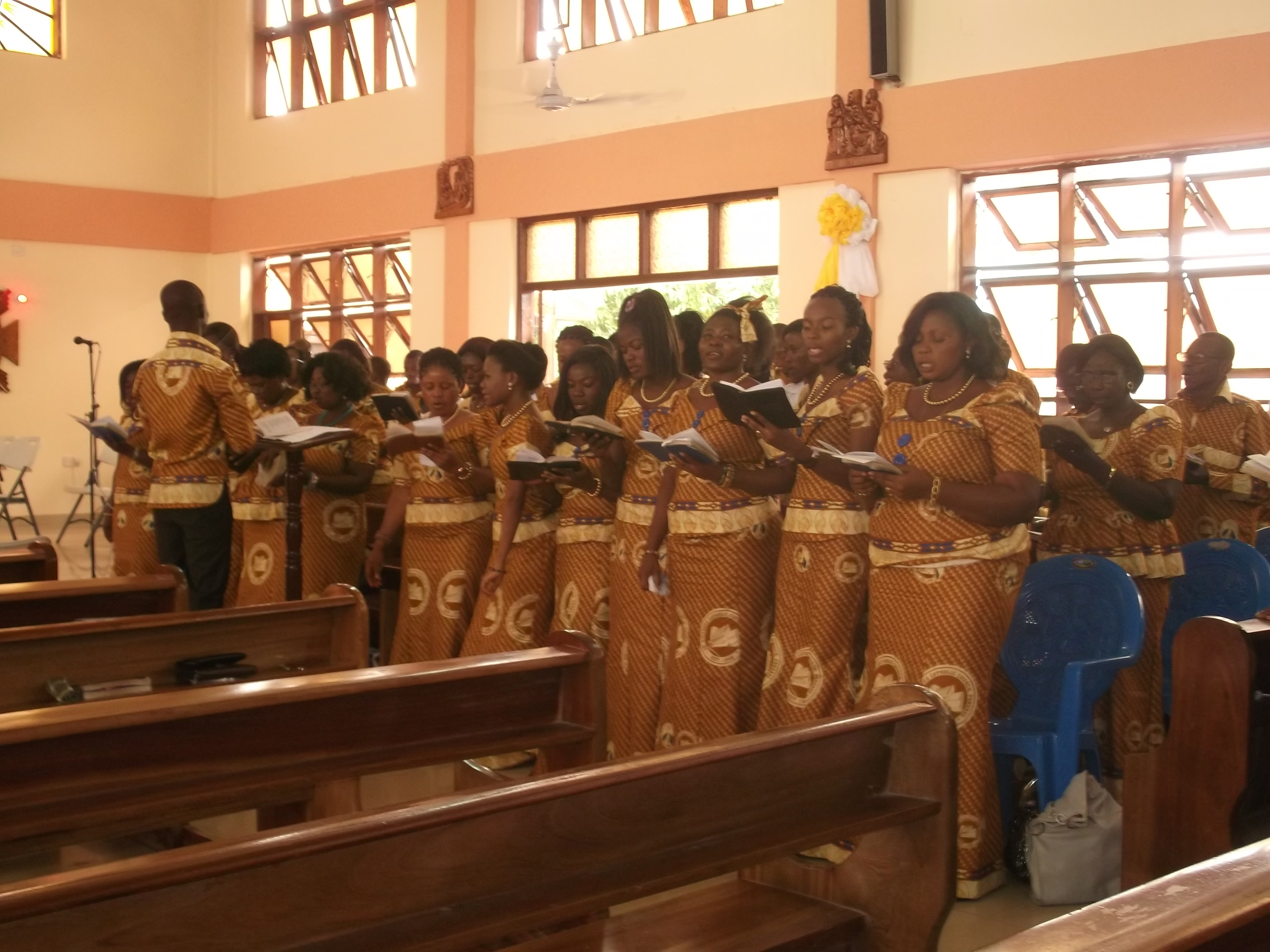 Church choir sings at church dedication ceremony